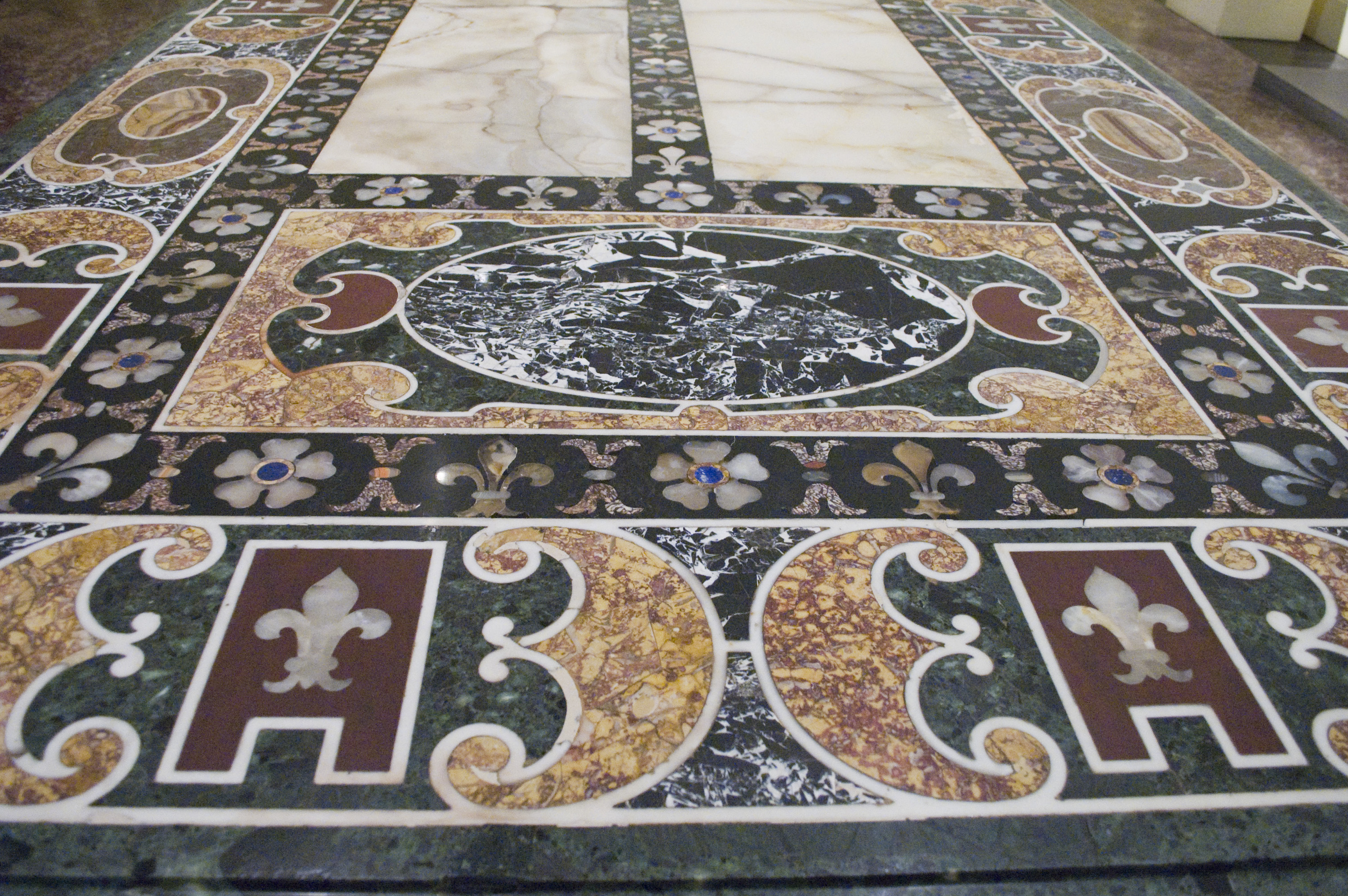 A view of and inlaid table in the Metropolitan Museum of Art.